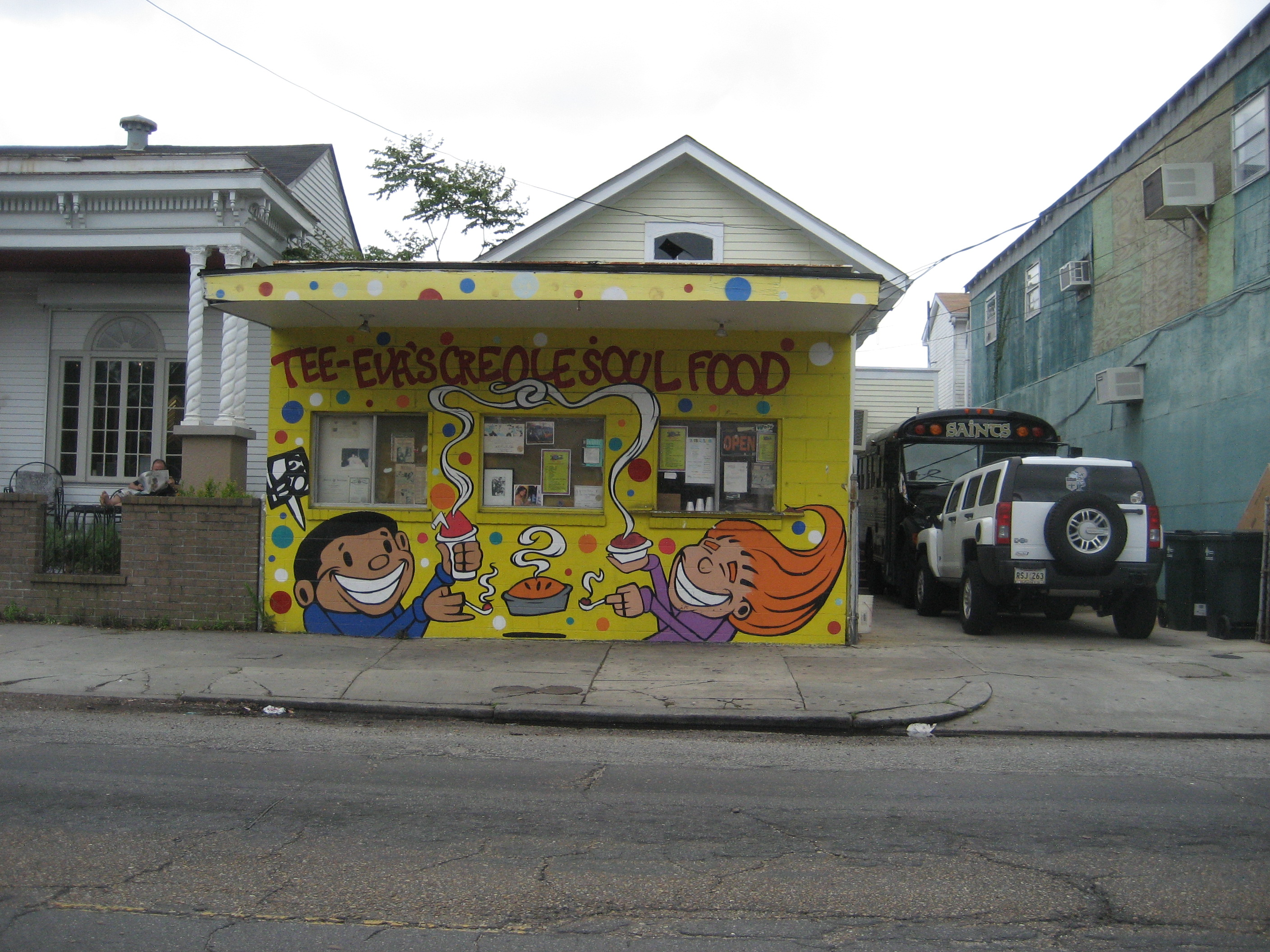 New Orleans: "Tee Eva's" on Magazine Street, shop selling "Creole Soul Food" to go, most famous for snow-balls and pies.